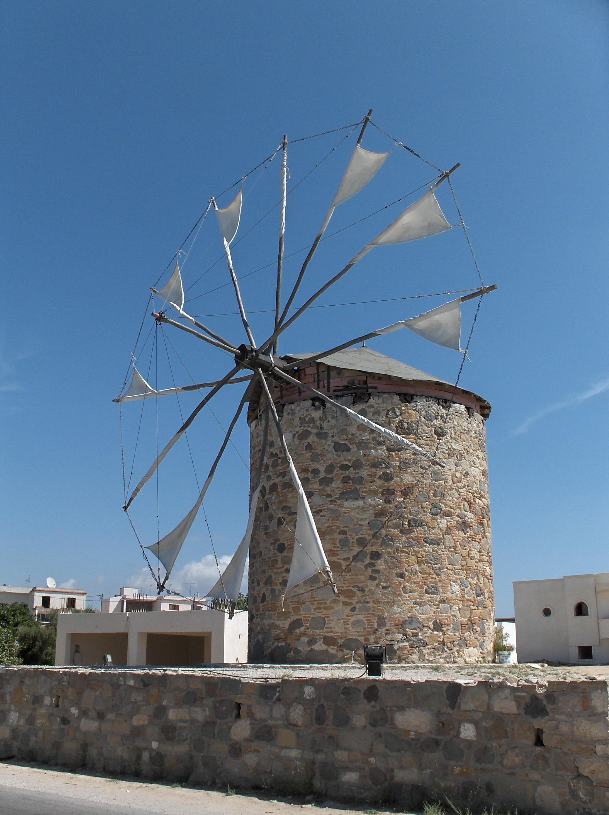 Windmill of Antimahia on Kos (Greece).